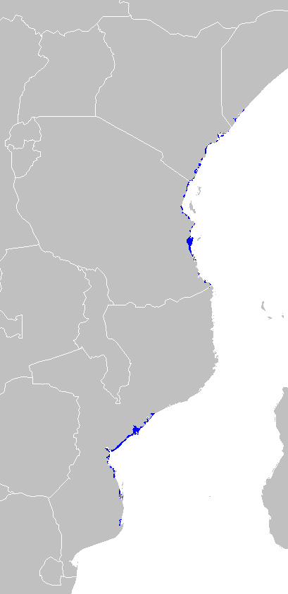 East African mangroves ecoregion map. In the Mangroves Biome.